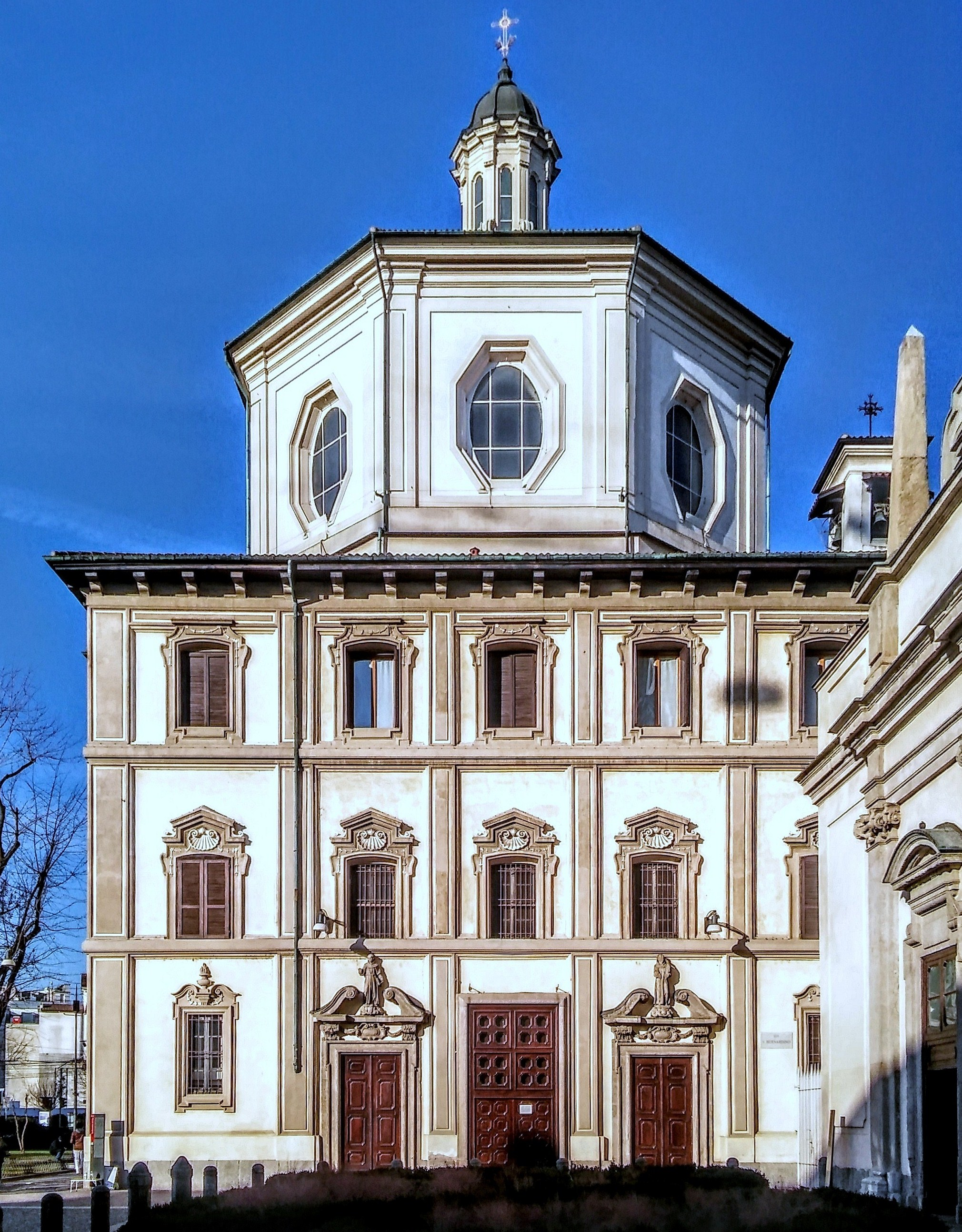 Facade of San Bernardino alle ossa church, Milan